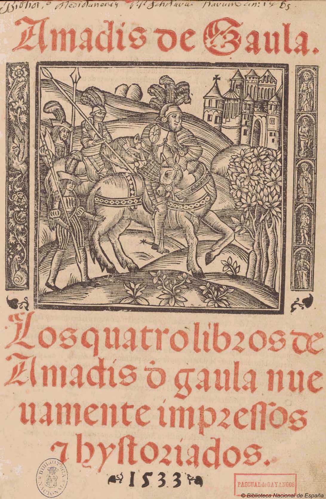 Page of "Amadis de Gaula"